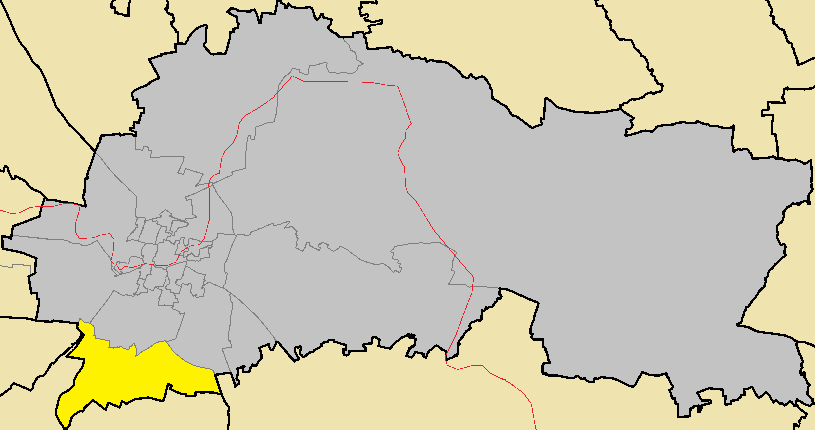 Ayioi Omoloyites in Nicosia Municipality